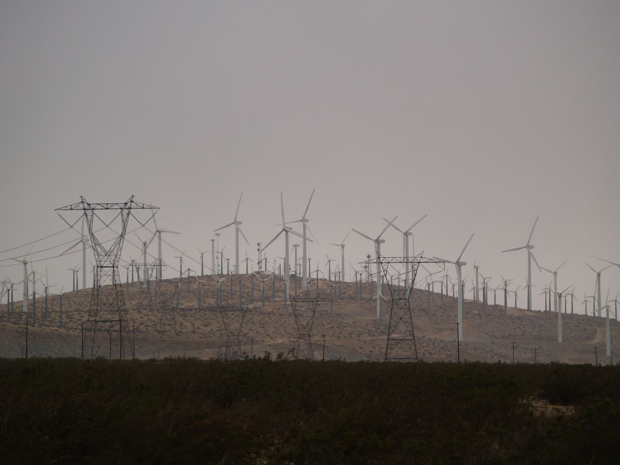 Wind turbines and power lines in Whitewater, California